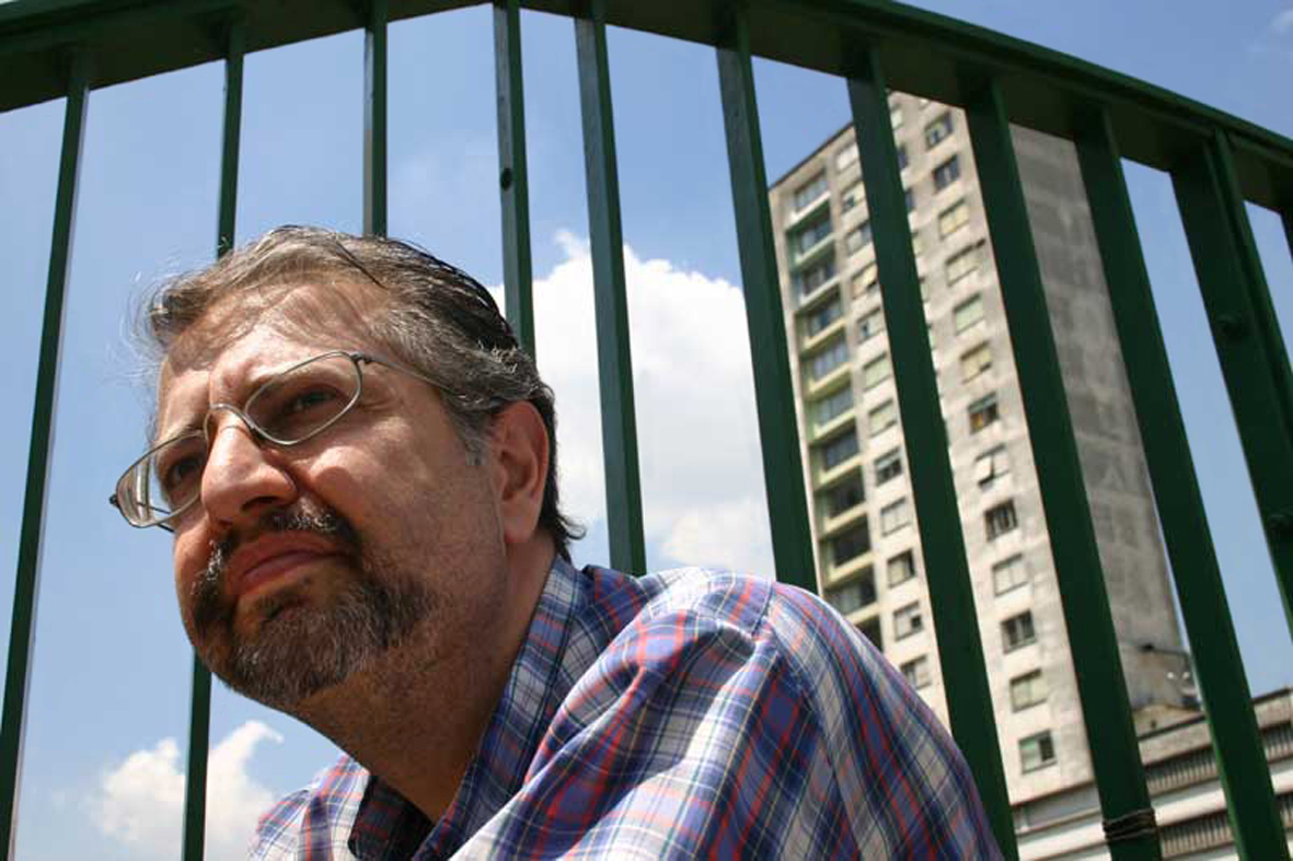 Picture of Marcelo Mirisola taken by João Marcondes.